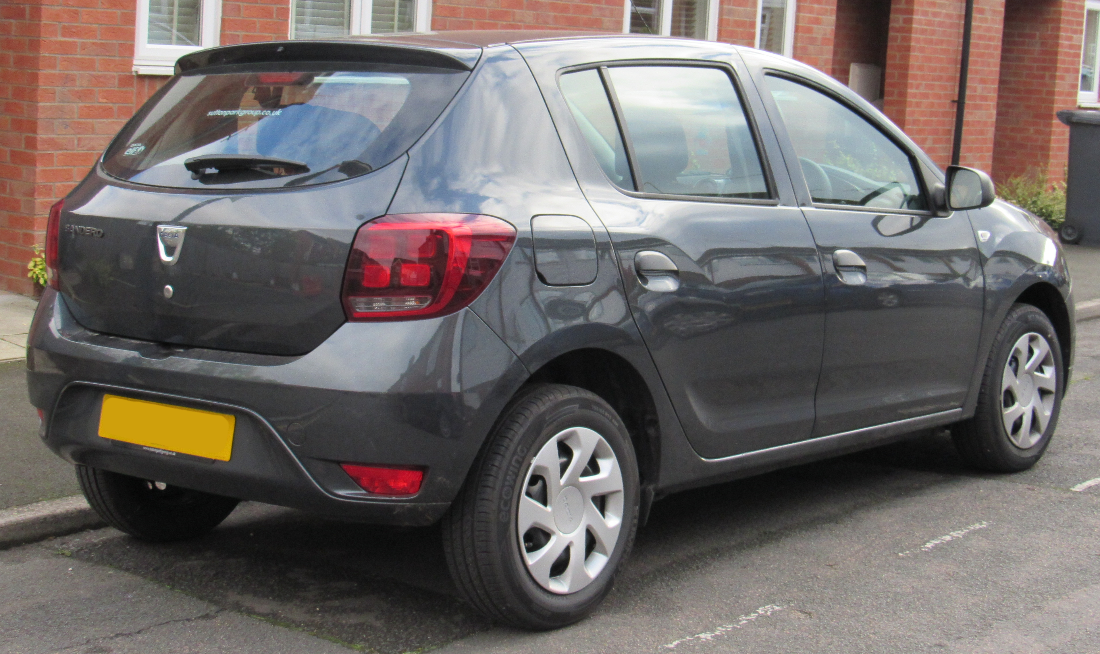 2017 Dacia Sandero Ambiance SCE facelift 1.0 Rear Taken in Warwick